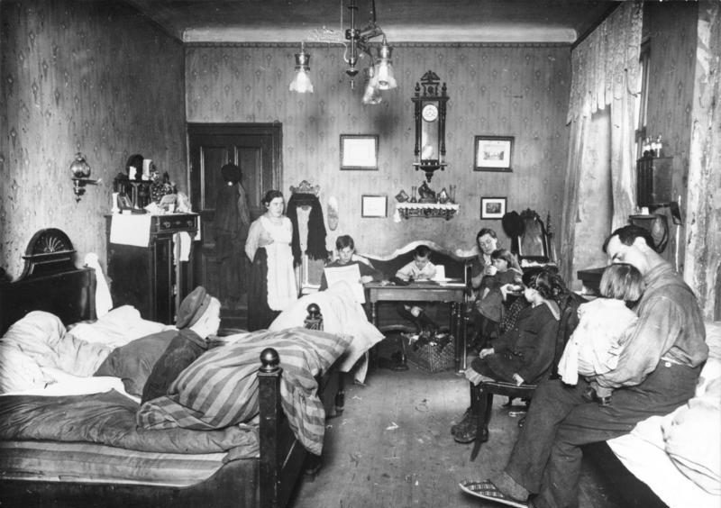 Lack of homes in 1919 Germany: In this home, with only one room and a kitchen, lived 11 people.